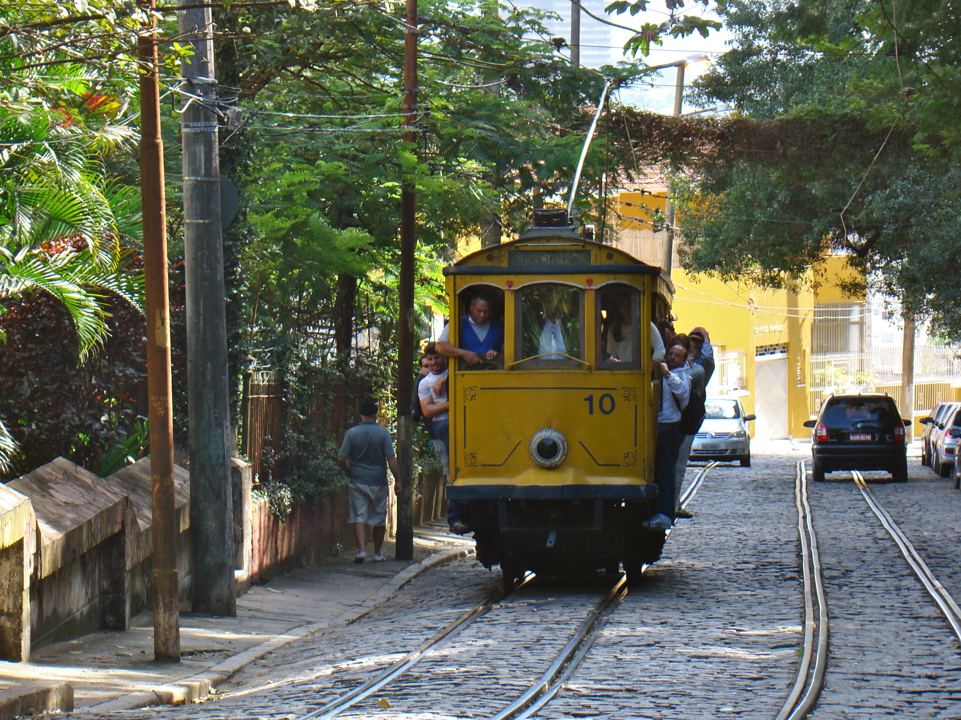 Head-on view of car 10 of Rio de Janeiro's Santa Teresa tramway, outbound on the line (headed for Dois Irmãos), here running southeastwards along Rua Joaquim Murtinho, just northwest of the intersection with Rua Dias de Barros and the beginning of Rua Almirante Alexandrino. (Note: The information on the associated Flickr page was taken from an old version of the English Wikipedia article about the line.)